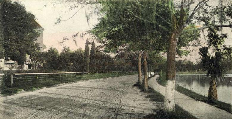 Lucerne Circle, Lake Lucerne, Orlando, FL; from a c. 1905 postcard published by E. C. Kropp, Milwaukee, Wisconsin.